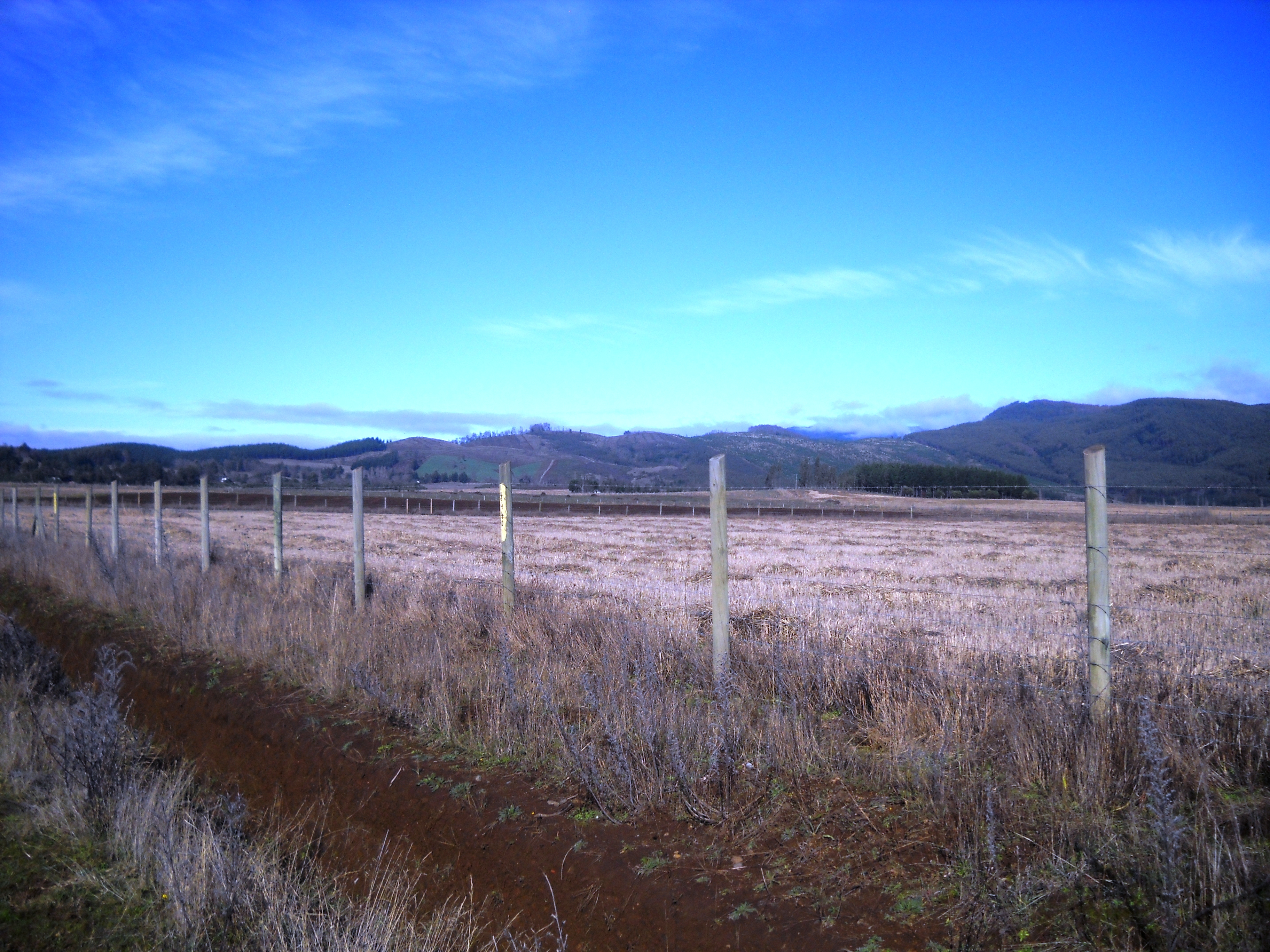 Mountain range of Ñielol seen from Coihueco.